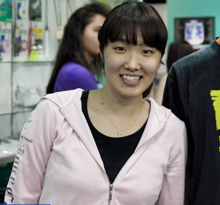 Eriko Hirose(Japanese Badminton Player)